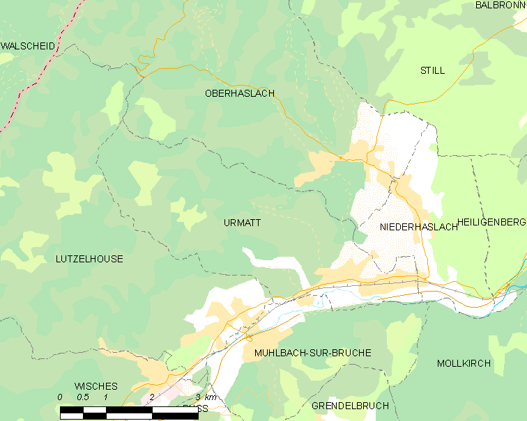 Map of French municipality